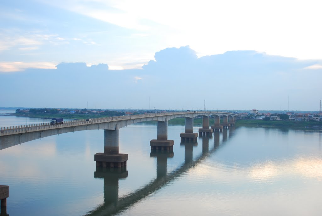 Kisona Bridge